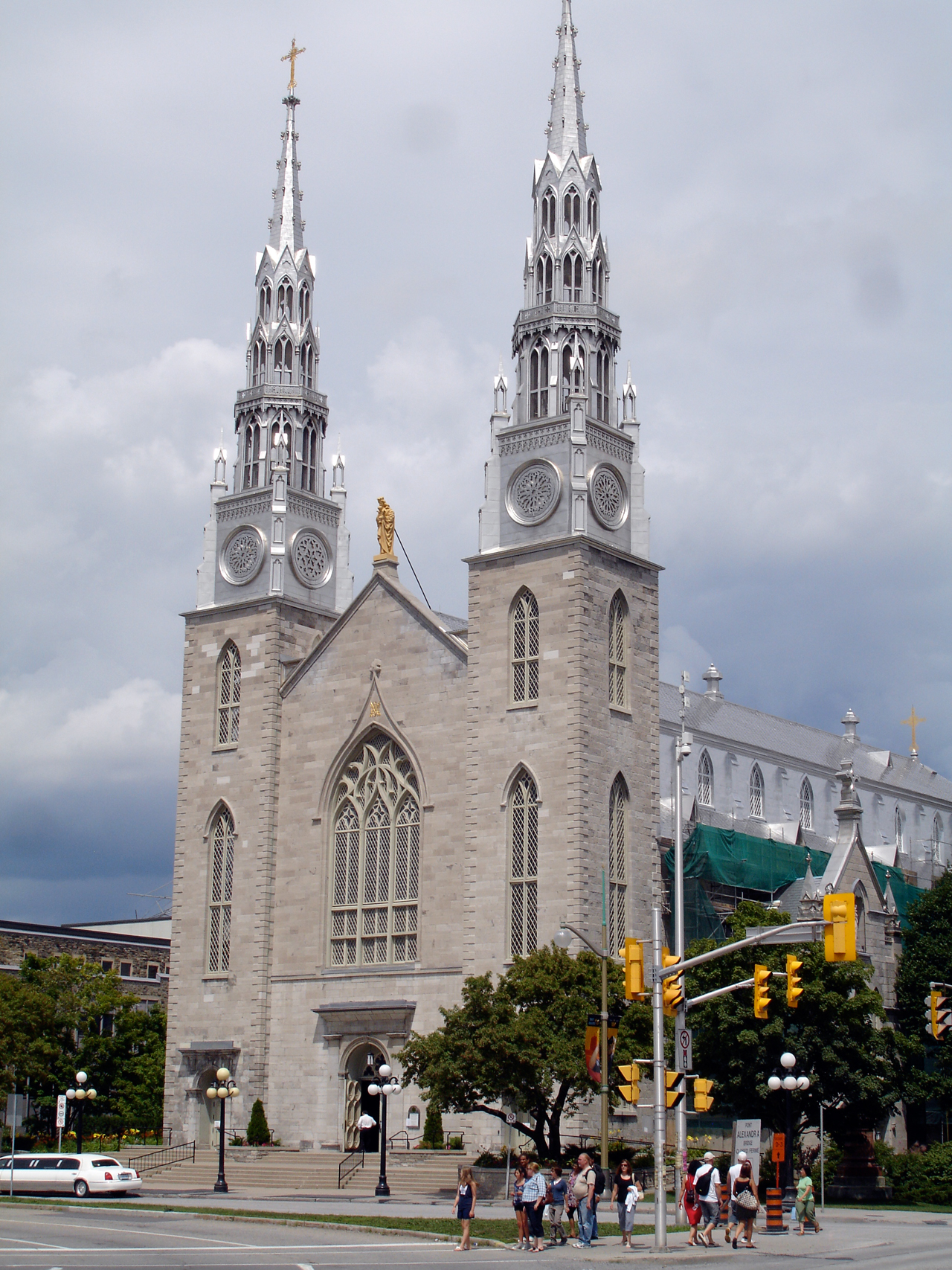 This is Ottawa's oldest church, built on the site of St. Jacques Church, demolished in 1841. The original design was to be Neoclassical, but after the lower section was built, a Neo-Gothic design was adopted instead. The main structure was finished in 1846, but the spires were not installed until 1866.